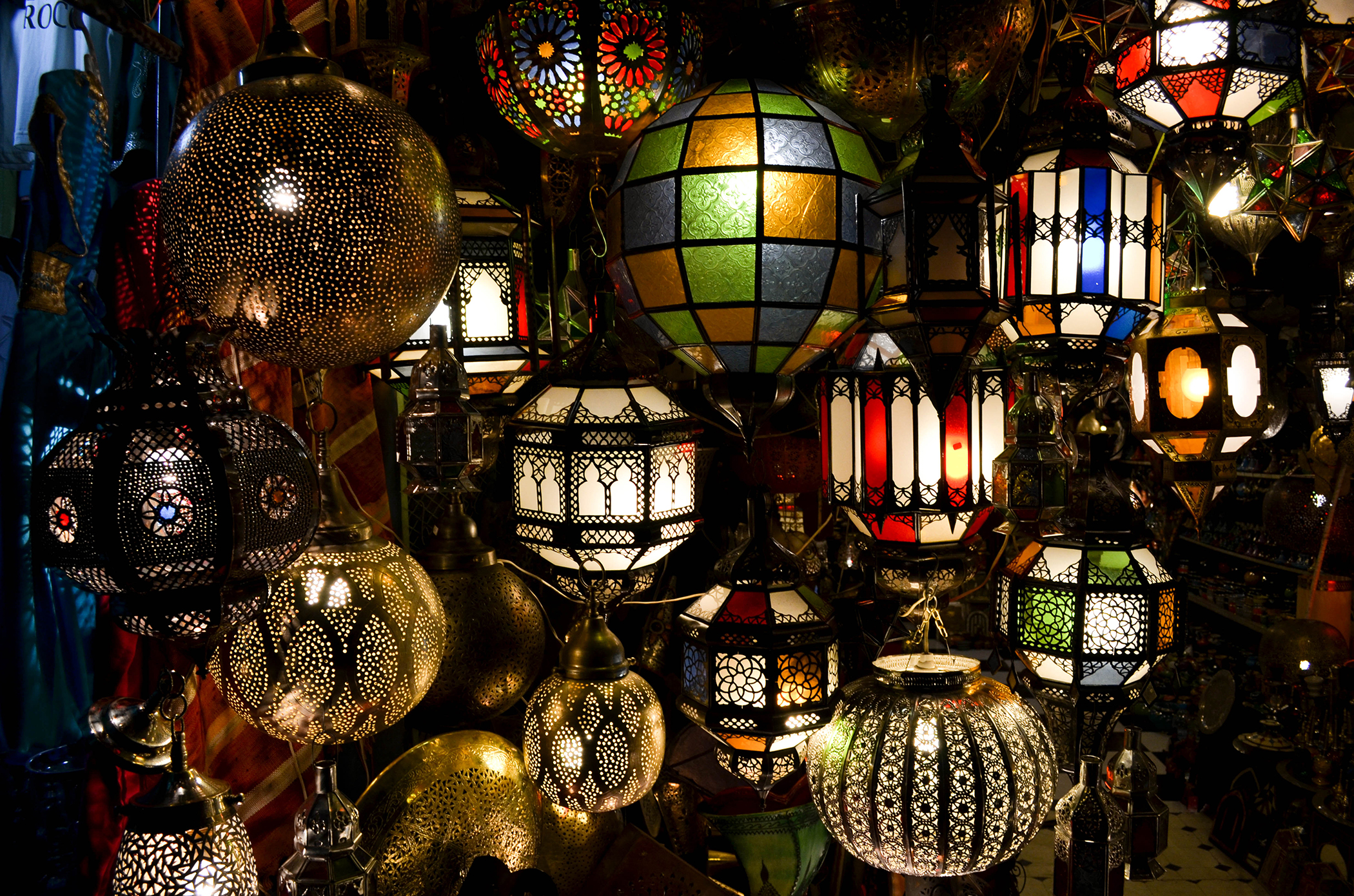 Shop lamps at Djeema el Fma Square, Marrakesh, Morocco